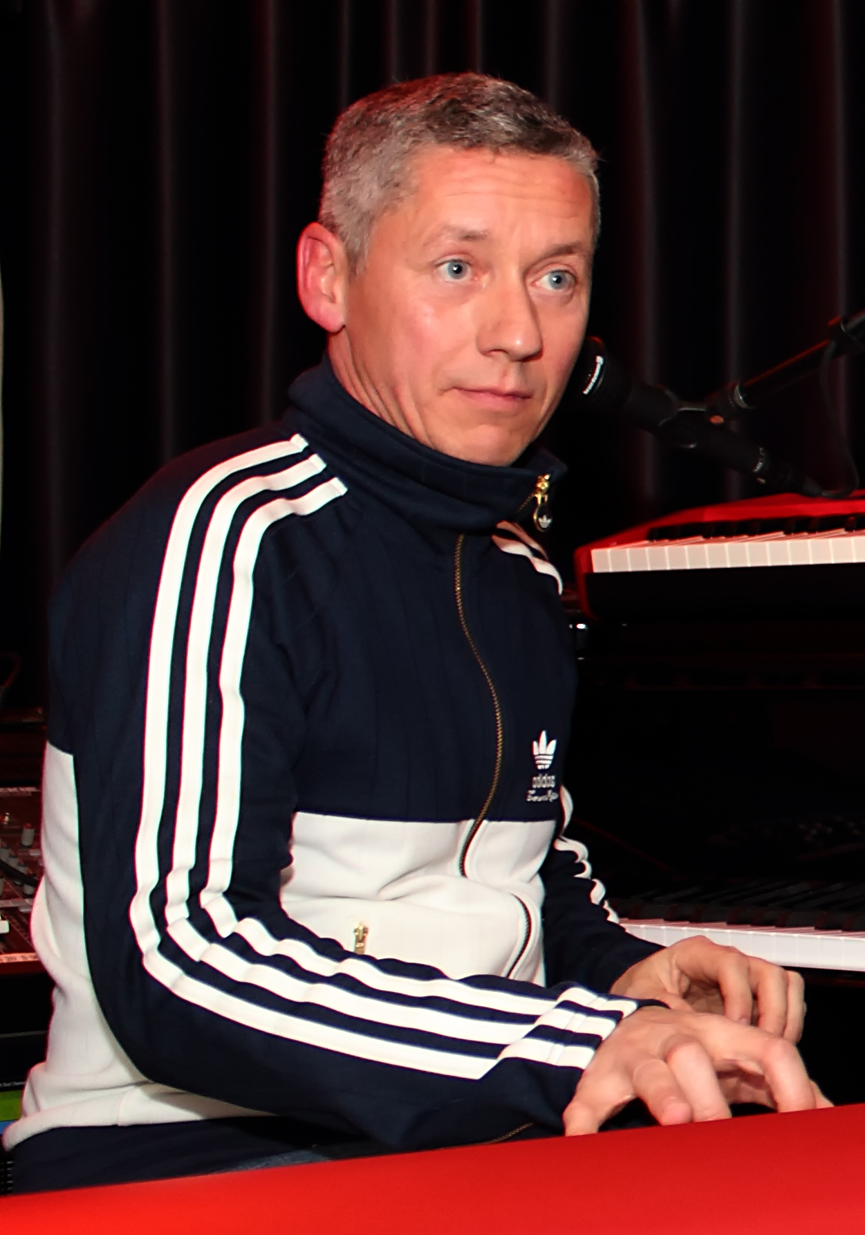 German pianist Lutz Potthoff playing a gig in his hometown Hattingen / Ruhr on November 19, 2010.